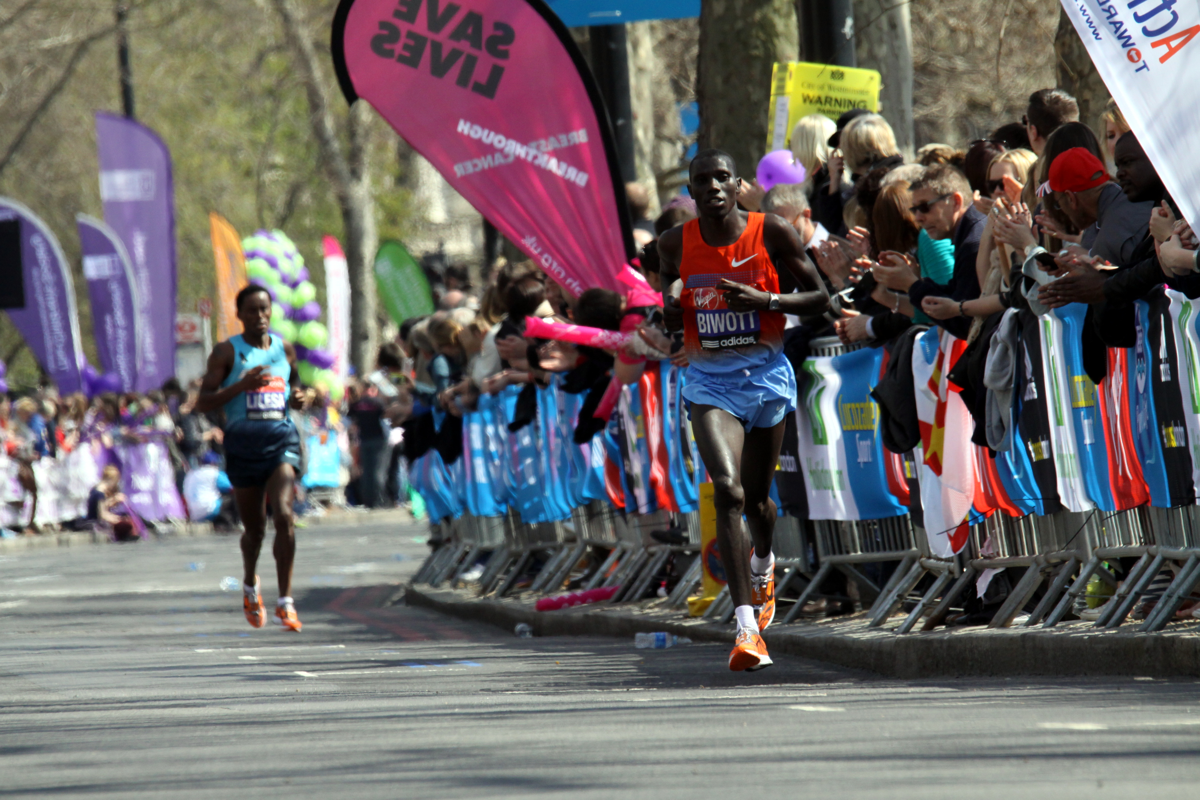 Stanley Biwott during 2013 London Marathon, photographed at Victoria Embankment, London, Great Britain. The making of this file was supported by Wikimedia UK.